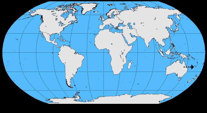 Map showing global distribution of Corvus moneduloides